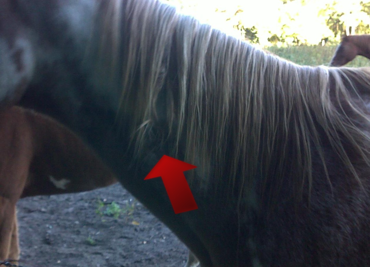 An elf-lock in the mane of a horse